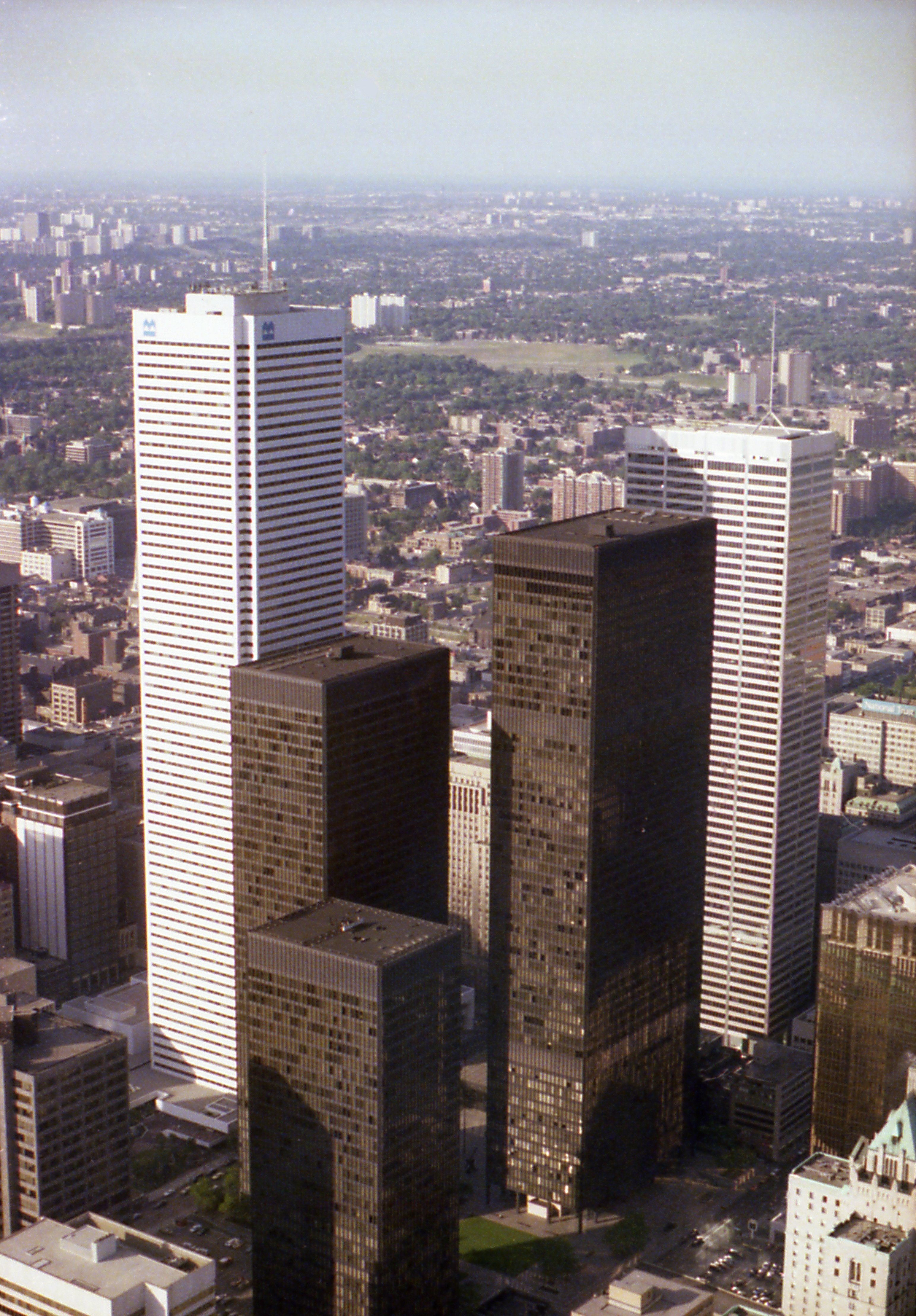 Views and vistas captured from the two levels of viewing rooms on the Canadian National Tower in Toronto Canada in 1978. Camera: Olympus Pen F Half Frame SLR.